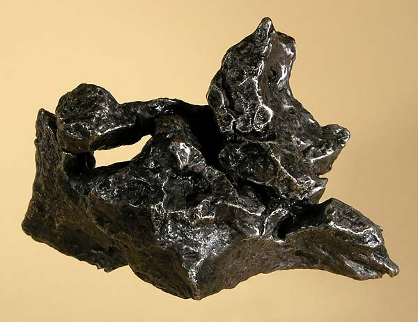 Campo del Cielo iron meteorite with natural hole, 576 grams